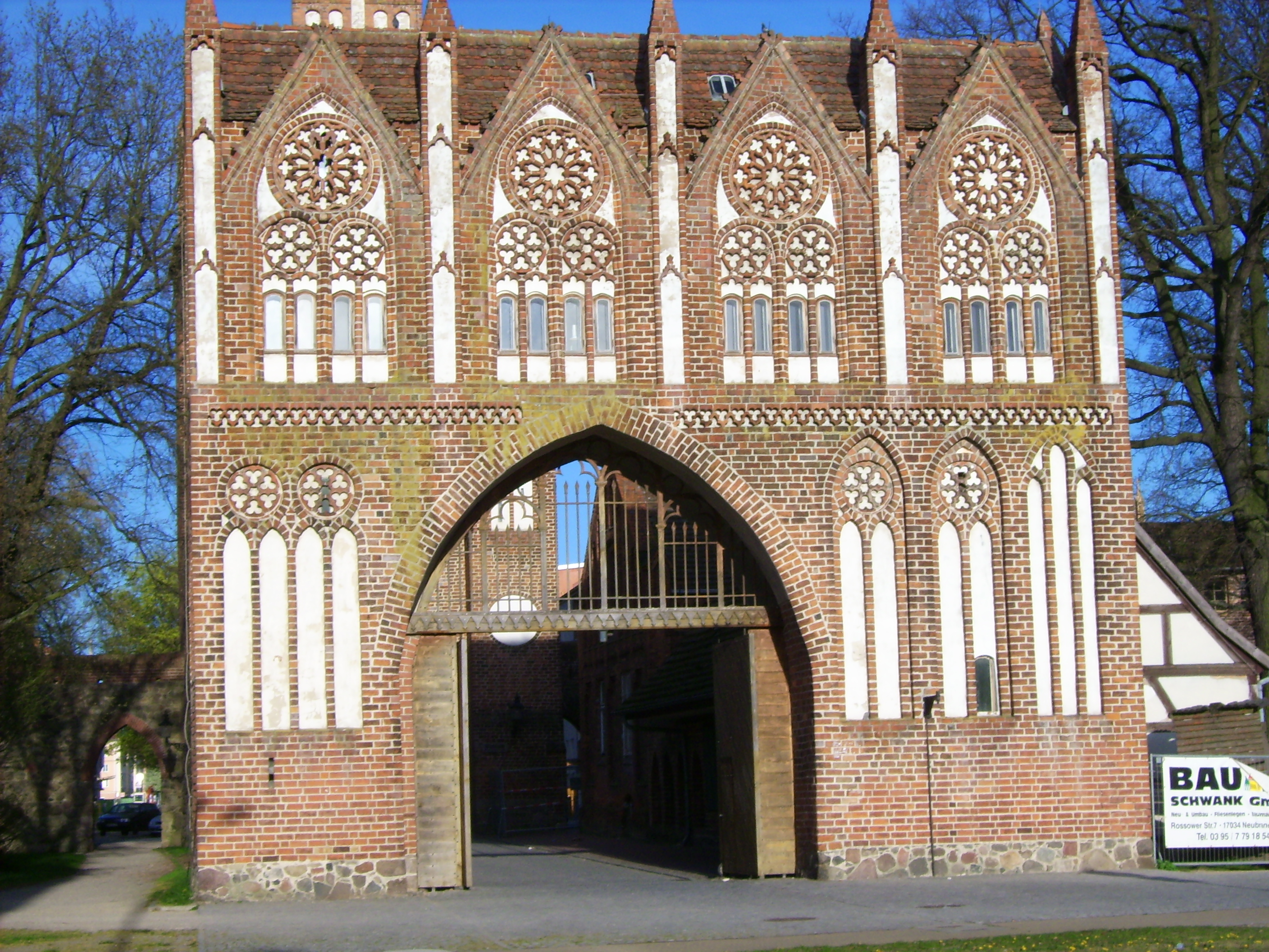 The Treptower Tor (pre-gate), one of the four city gates in the German town Neubrandenburg, Mecklenburg-Vorpommern (Mecklenburg-Western Pomerania).